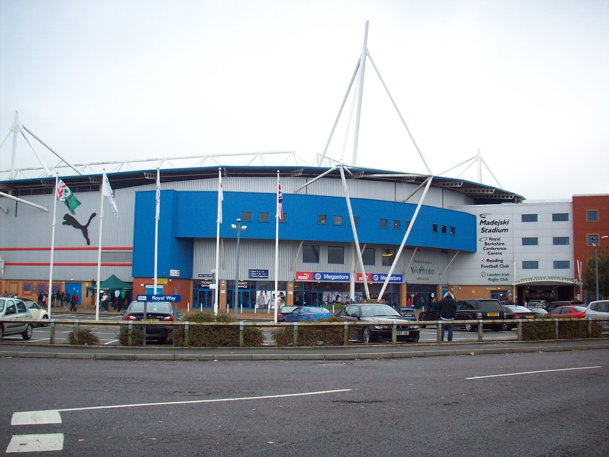 London Irish vs Swansea Ospreys on Sunday 2nd November 2008, 3pm kick off.